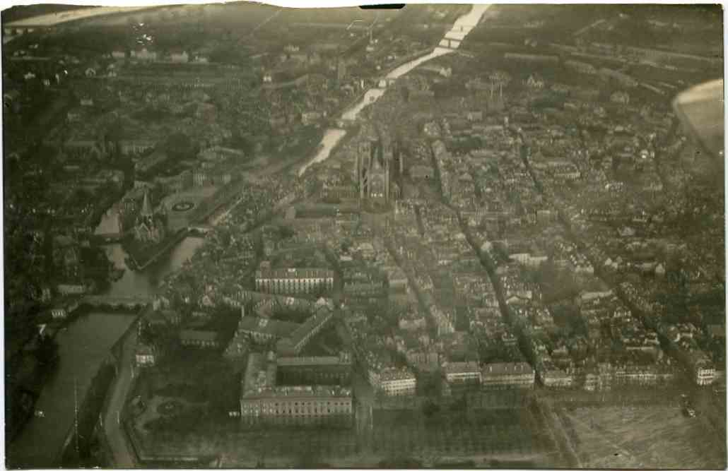 Contact print from a negative of an aerial photograph of Metz, France, in November 1918, taken from 300 meters altitude [believed taken from 1st Lt. Henry L. Graves airplane]. View of the city was taken over heart of the city, with the Moselle River, the Moselle Canal, the Neuf Temple, the Opéra-Théâtre de Metz Métropole, and the Metz Cathedral. The wing of the airplane is seen at right in the image (November 1918) [Photograph collected by or taken by Henry L. Graves]. --From Henry L. Graves Papers, WWI 55, Military Collection, State Archives of North Carolina